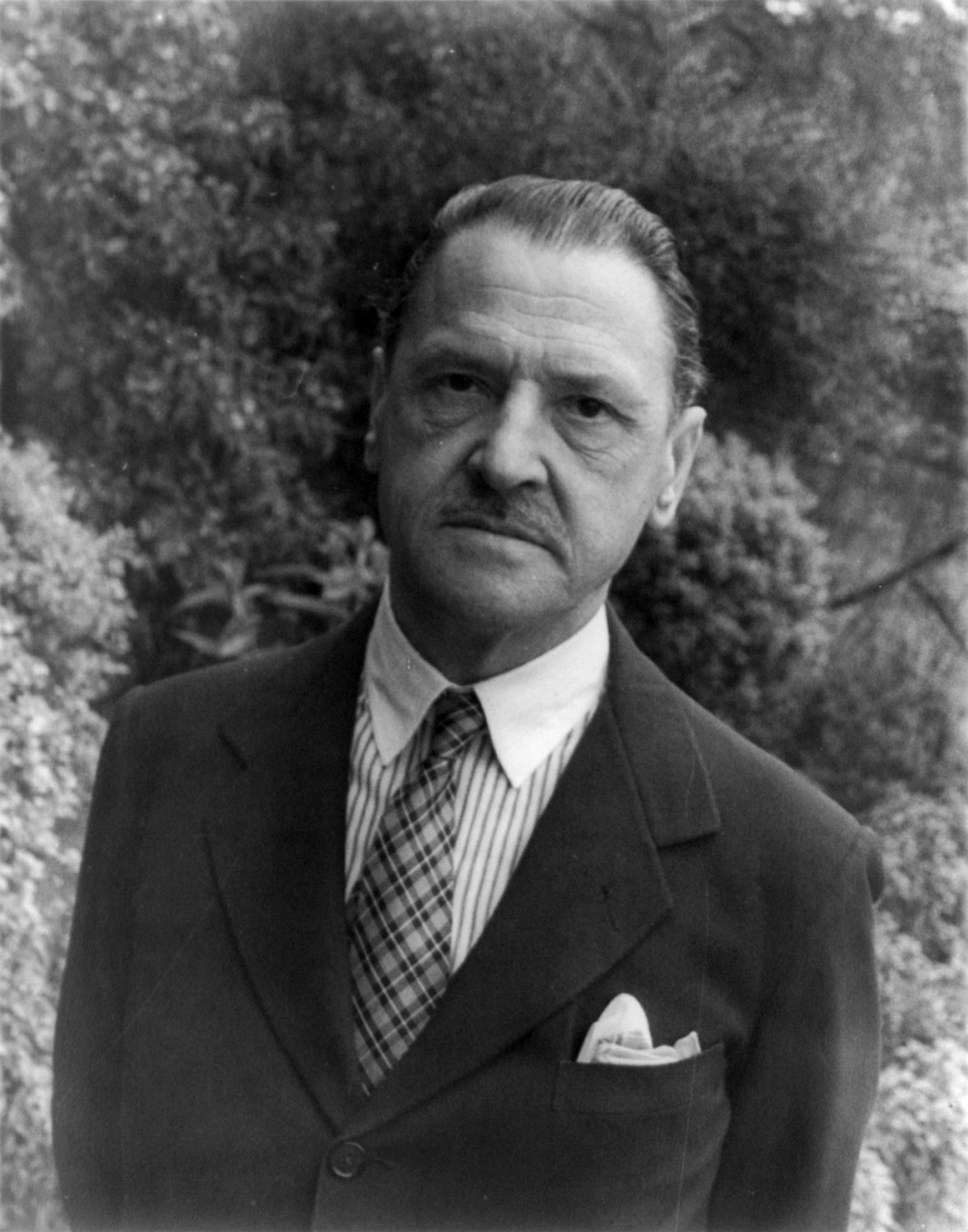 Portrait of William Somerset MaughamA portrait of W. Somerset Maugham